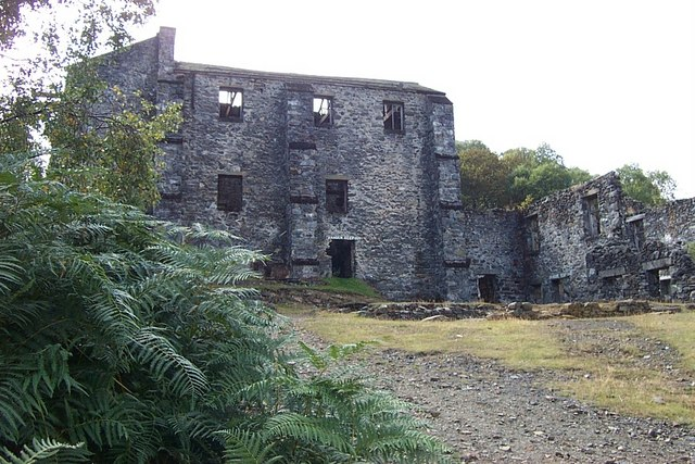 Klondyke Lead Mine Ruins. The Klondyke lead mine ruins at SH 76497 62155.